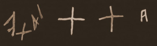 elba island